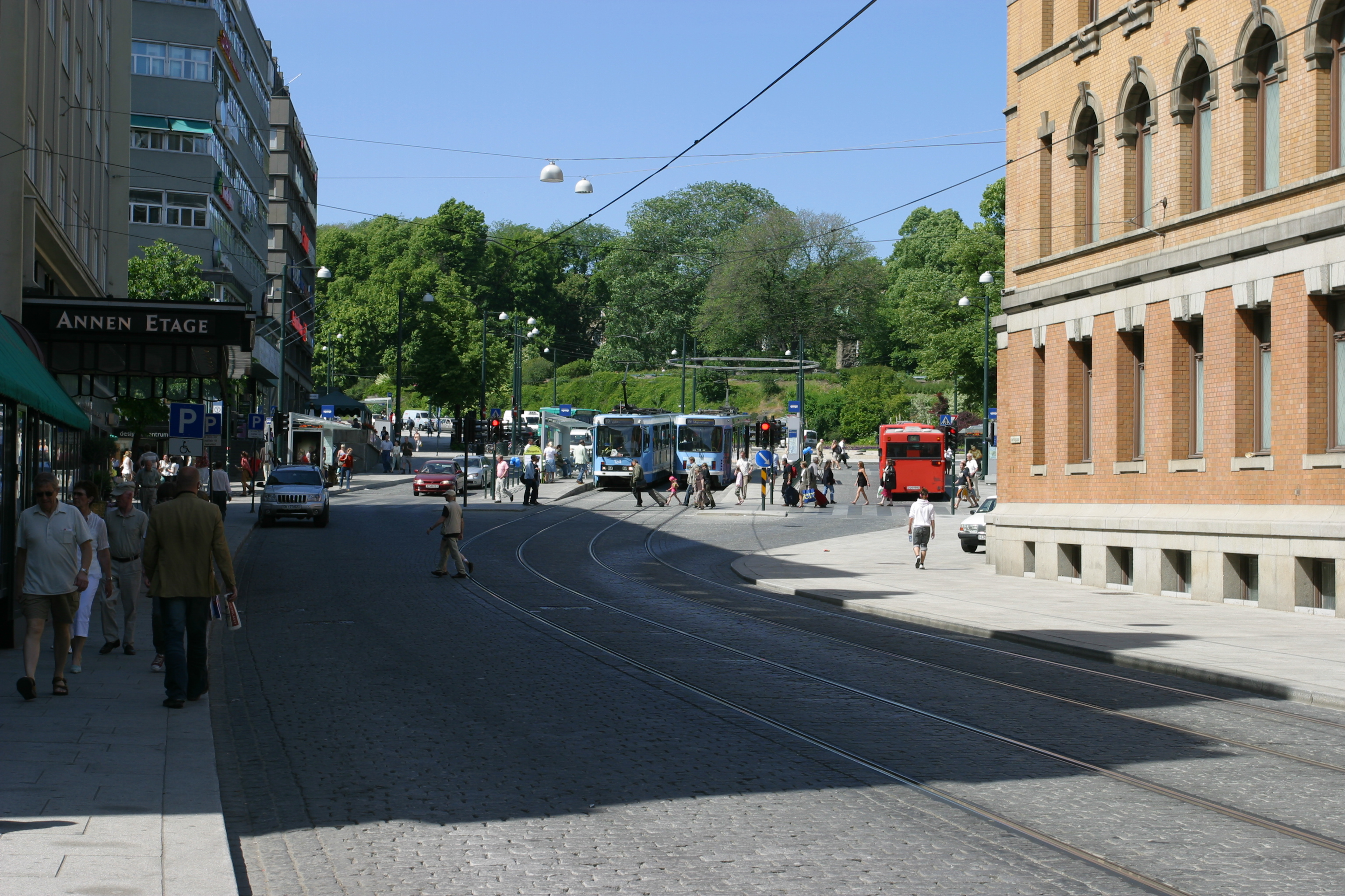 Picture of Stortingsgata (Oslo - Norway)